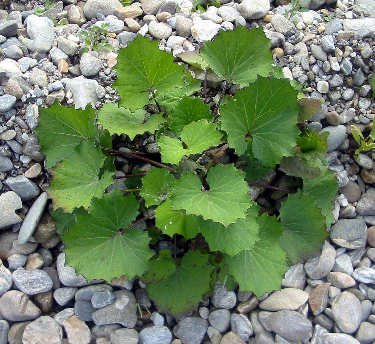 Tussilago farfara, Asteraceae on the banks of the Dâmboviţa river, Romania